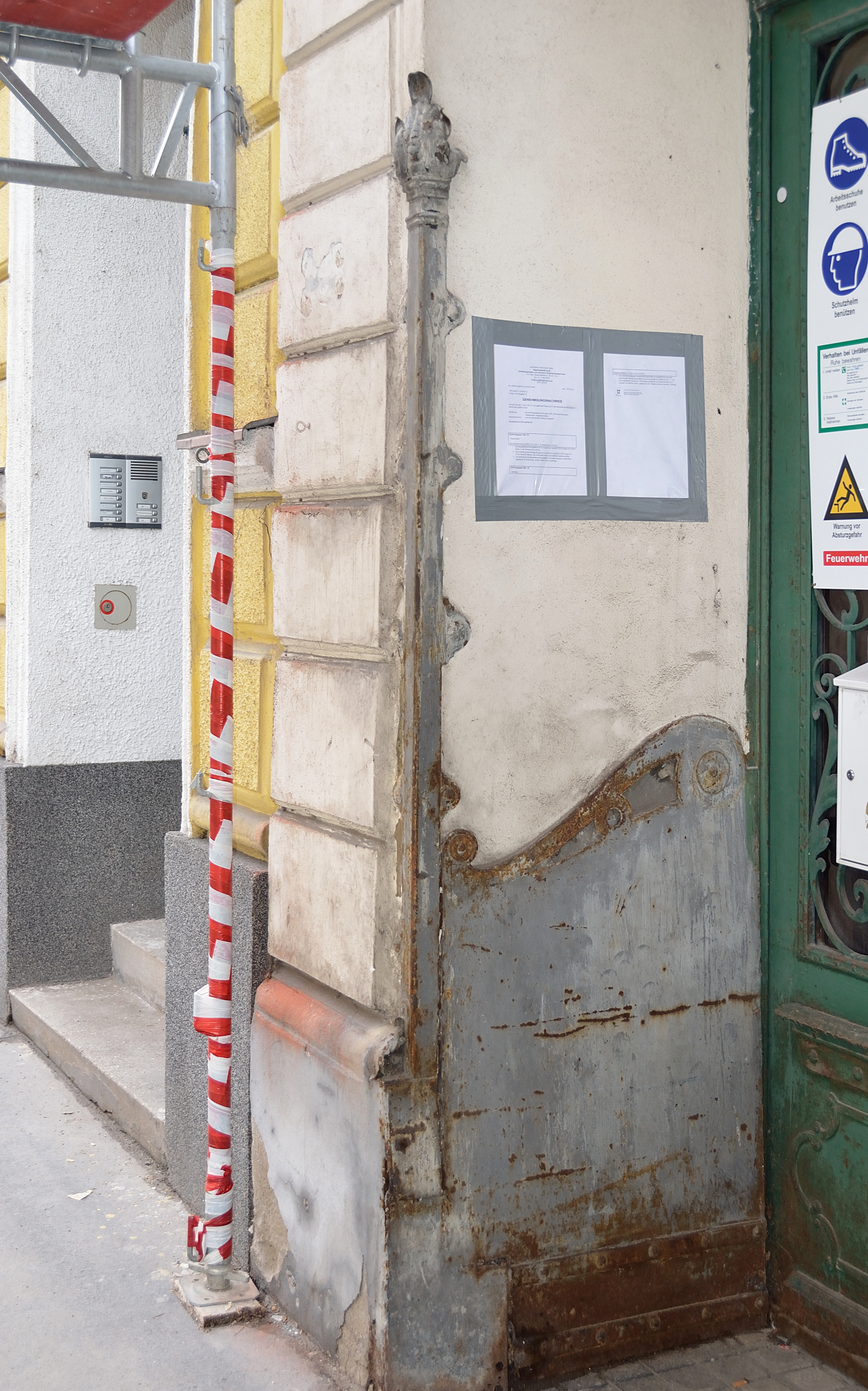 House door Aichholzgasse 16 at Meidling, Vienna.